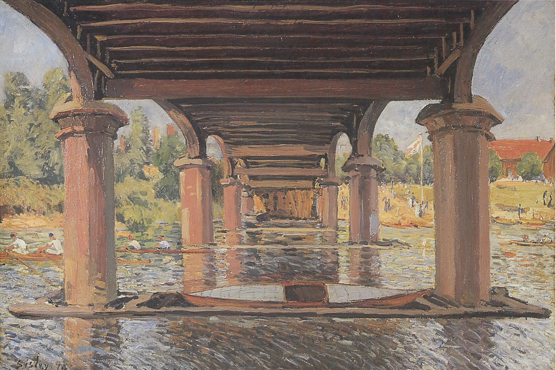 Sisley - Under the Bridge at Hampton Court. 1874 50 x 76 cm. Kunstmuseum, Winterthur.